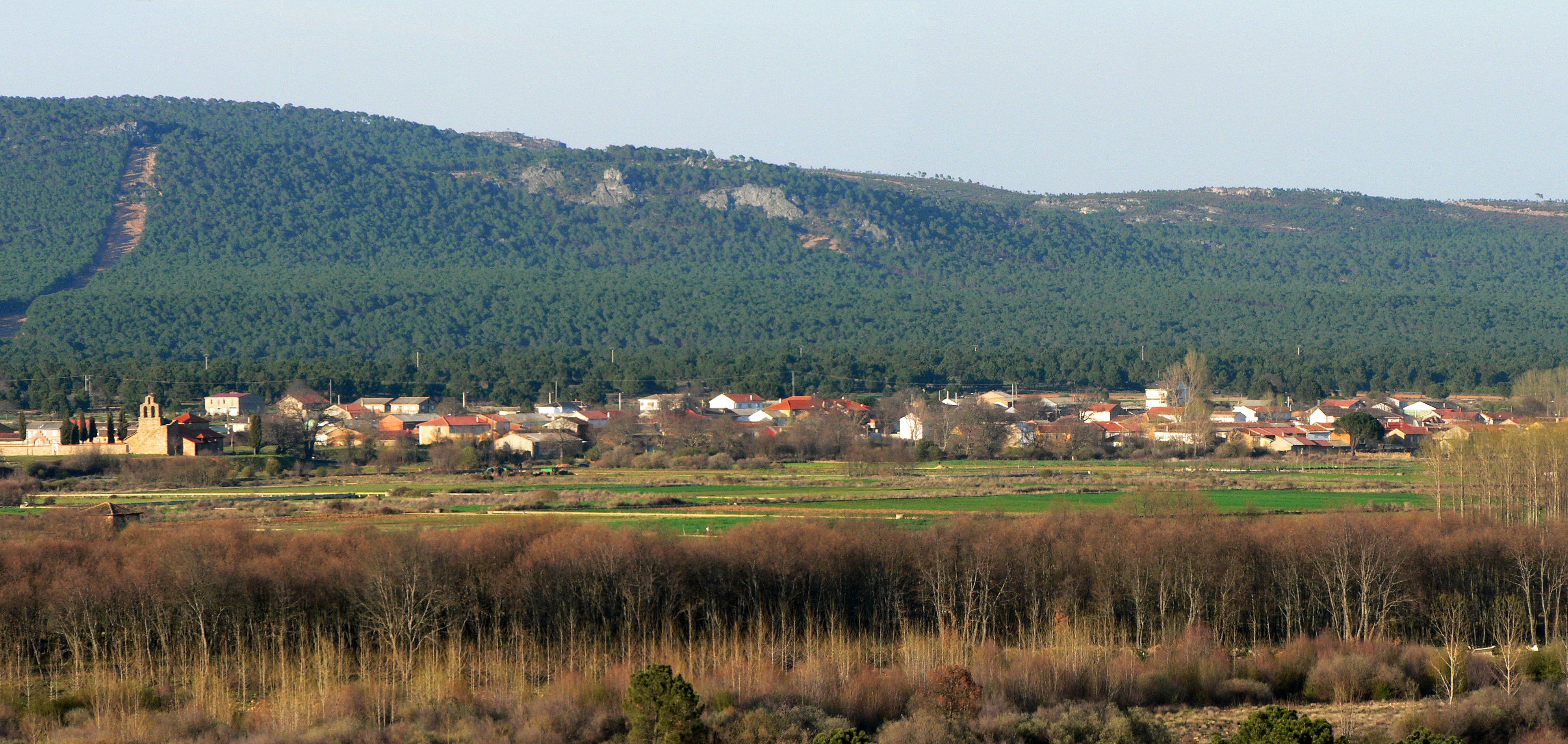 Panorama of the spanish village of Nogarejas, province of León, as seen from the South